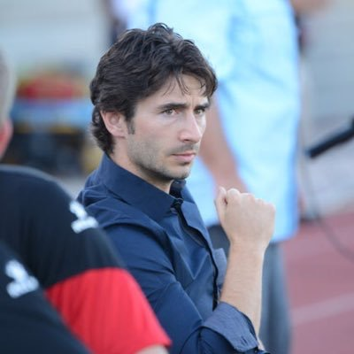 Gerard Nus looking on sternly.